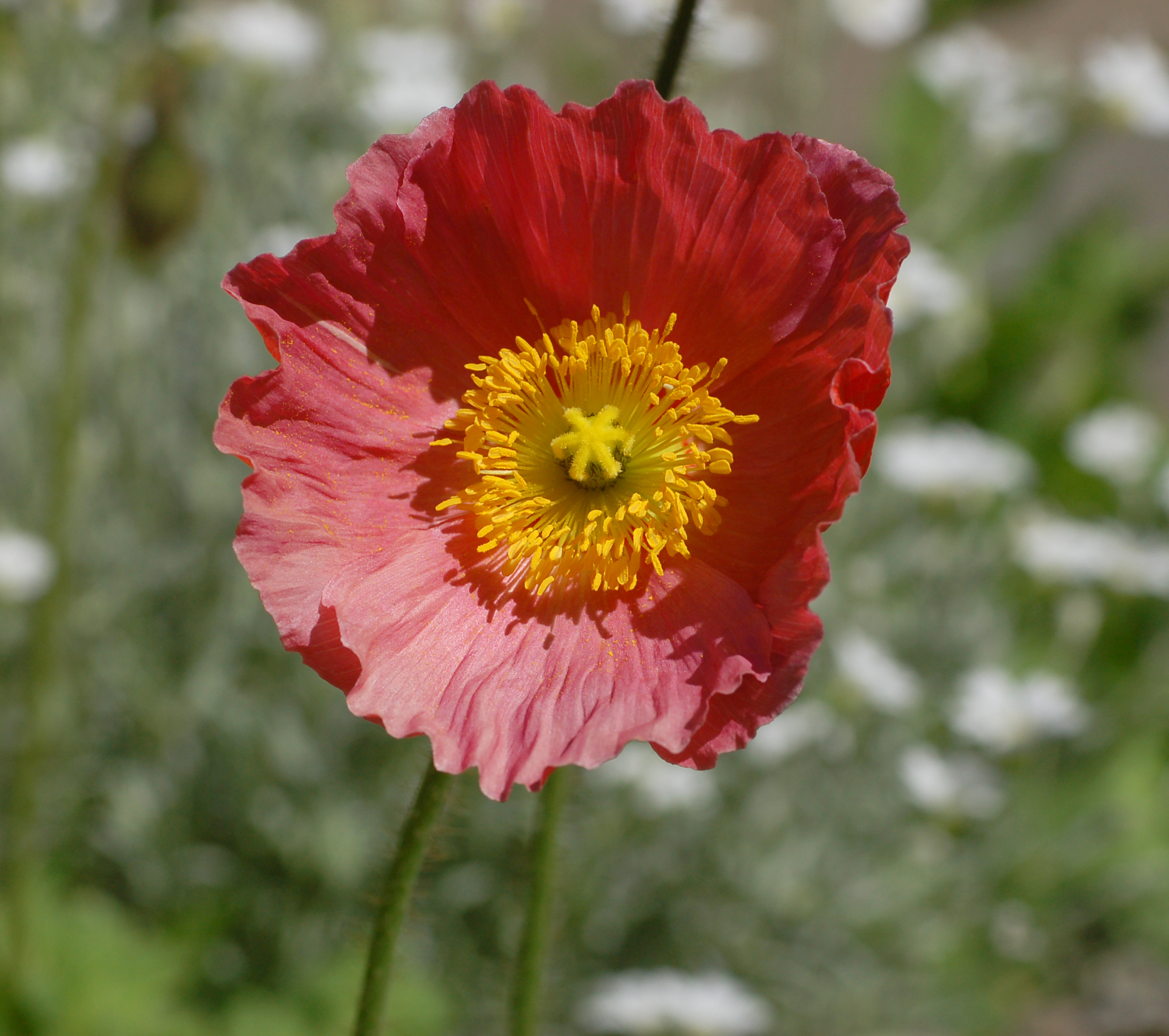 Picture of a pink Iceland Poppyen (Papaver nudicaule en 'Champagne Bubbles') flower. Photo taken in the Teacup Garden at the Chanticleer Garden where the species was identified.